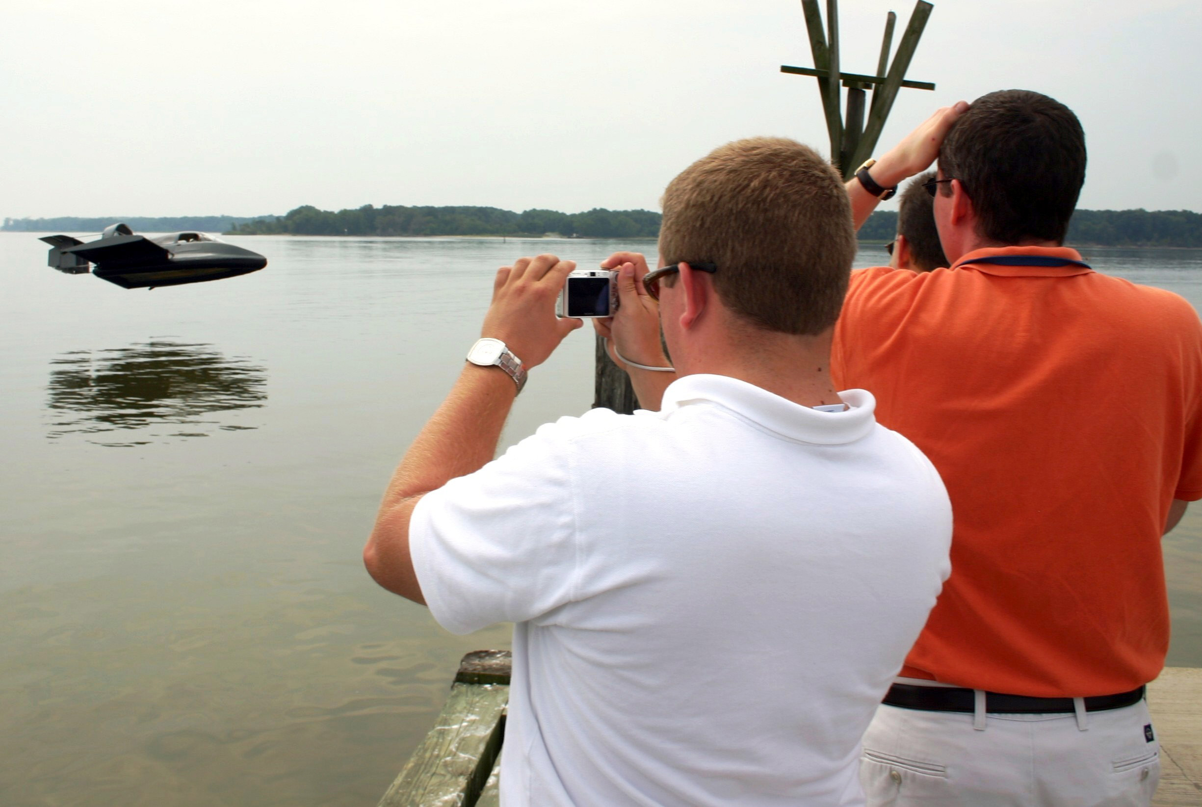 DAHLGREN, Va. (July 25, 2007) - Personnel observe the UH-19XRW Hoverwing in ground-effect mode over the Potomac River Test Range. Unmanned military capabilities of the hybrid hovercraft and ground-effect vehicle are being investigated by a team of Dahlgren engineers and scientists in a ground effect research and development program known as Sly Fox Program Mission 9. U.S. Navy photo by Mr. John Joyce (RELEASED)